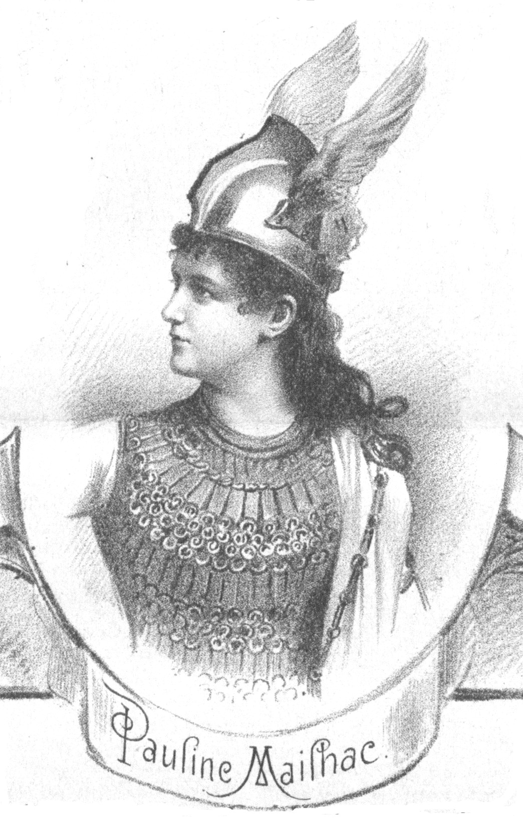 Portrait of Pauline Mailhac (1858-1946), German singer. Cropped from a gallery of Karlsruhe Opera members.